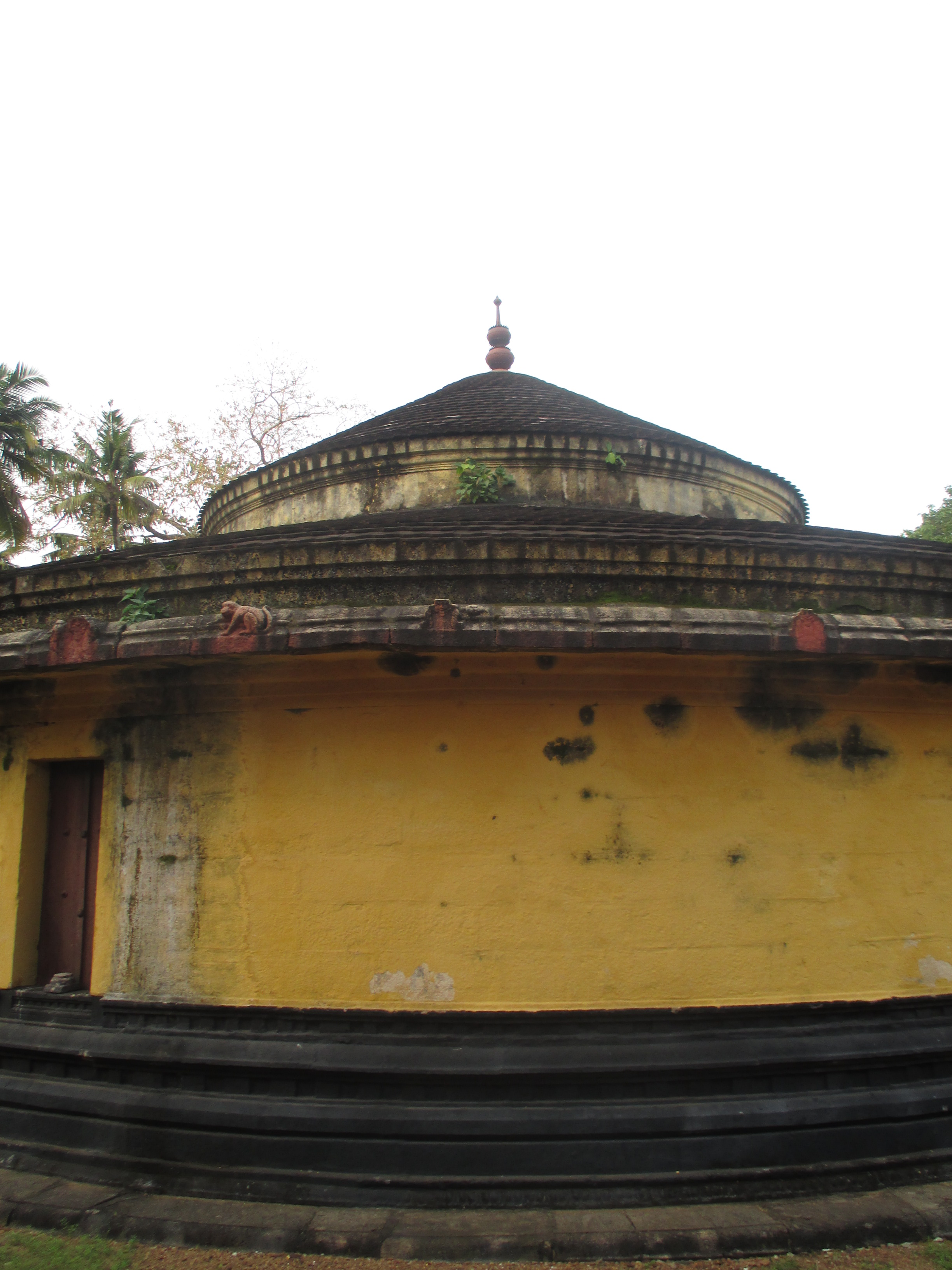 Puliyur Mahavishnu Temple